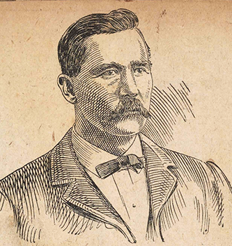 Elijah Longstreet Daughtridge (1863–1921), Lieutenant Governor of North Carolina